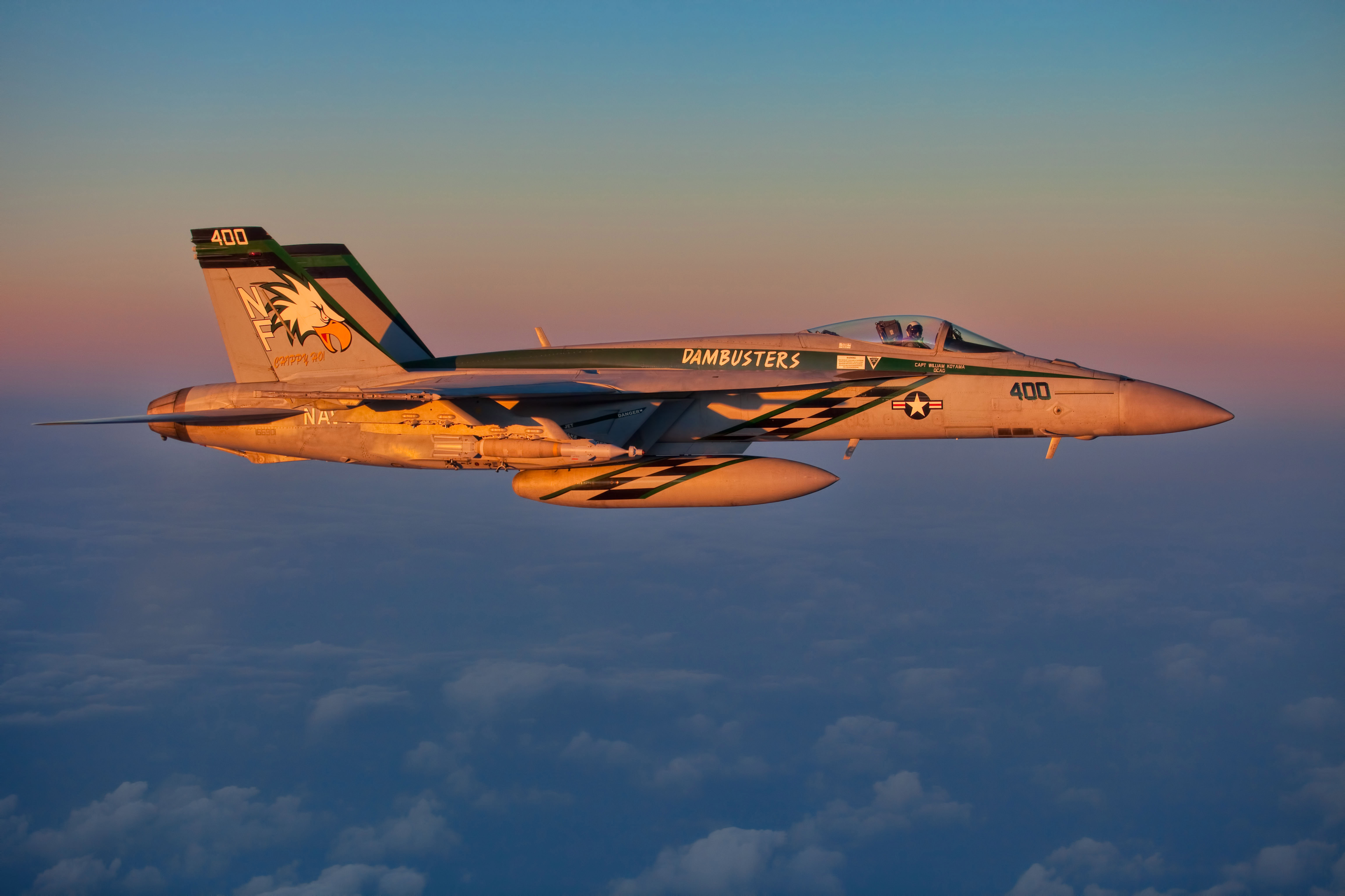 EAST CHINA SEA (Nov. 14, 2012) An F/A-18E Super Hornet assigned to the Dambusters of Strike Fighter Squadron (VFA) 195 flies over the East China Sea during exercise Keen Sword 2013. Keen Sword is a biannual exercise held to enable the United States and Japan to train in coordination procedures and heighten interoperability needed to effectively defend Japan or respond to a crisis in the Asia-Pacific region. The U.S. Navy is constantly deployed to preserve peace, protect commerce, and deter aggression through forward presence. Join the conversation on social media using #warfighting. (U.S. Navy photo by Lt. Colin Crawford/Released) 121114-N-ZZ999-480